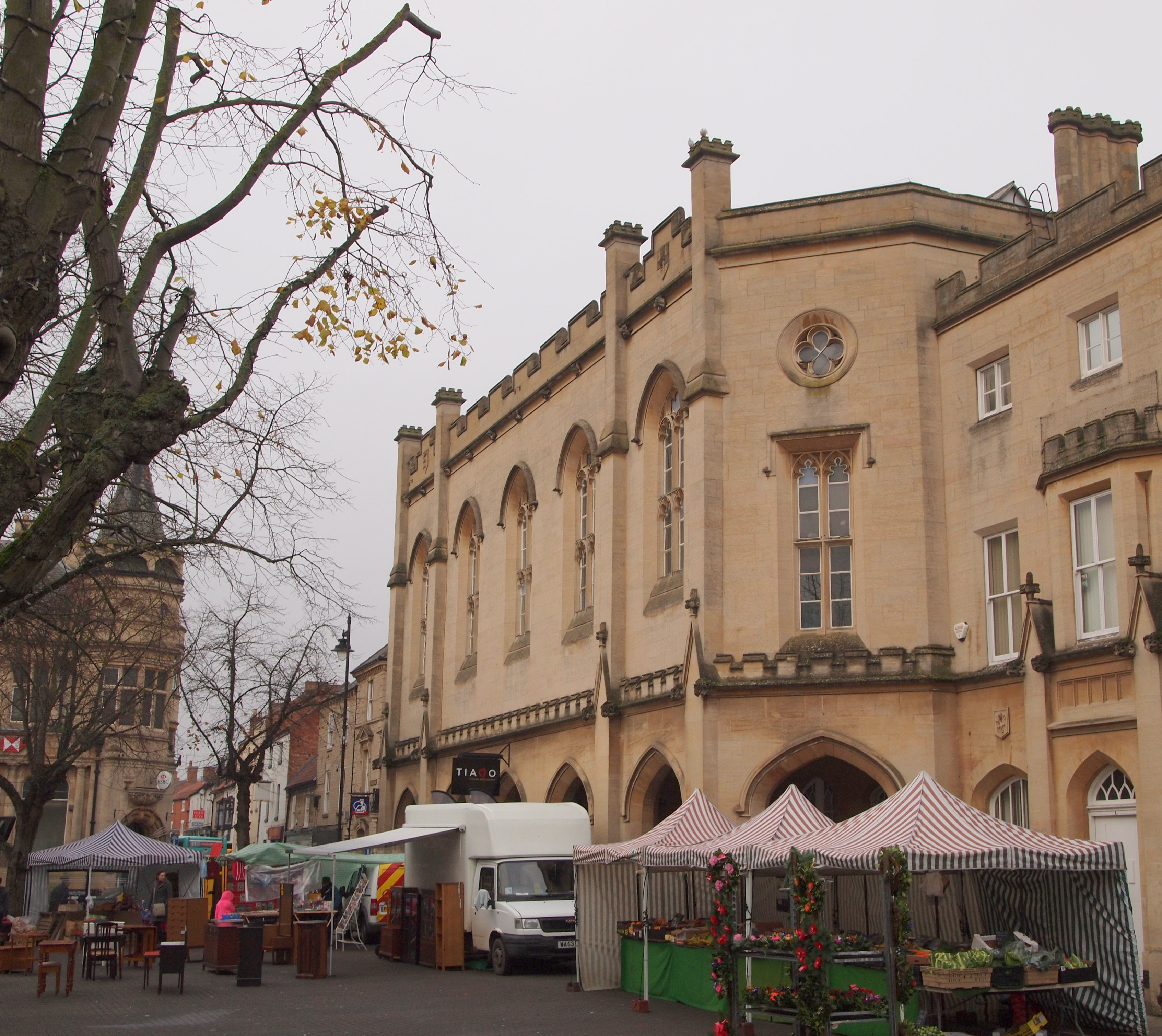 "A Grade II*-listed building in Gothic style from originating from 1829/1830 and still functioning as the Town Hall and Court building (a.k.a. "The Sessions House"). Designed by a local architect, Mr H.E. Kendall. The tall street lamp marks the boundary of the market place and the existence of North Gate (the B1518 road)." (Geograph description).